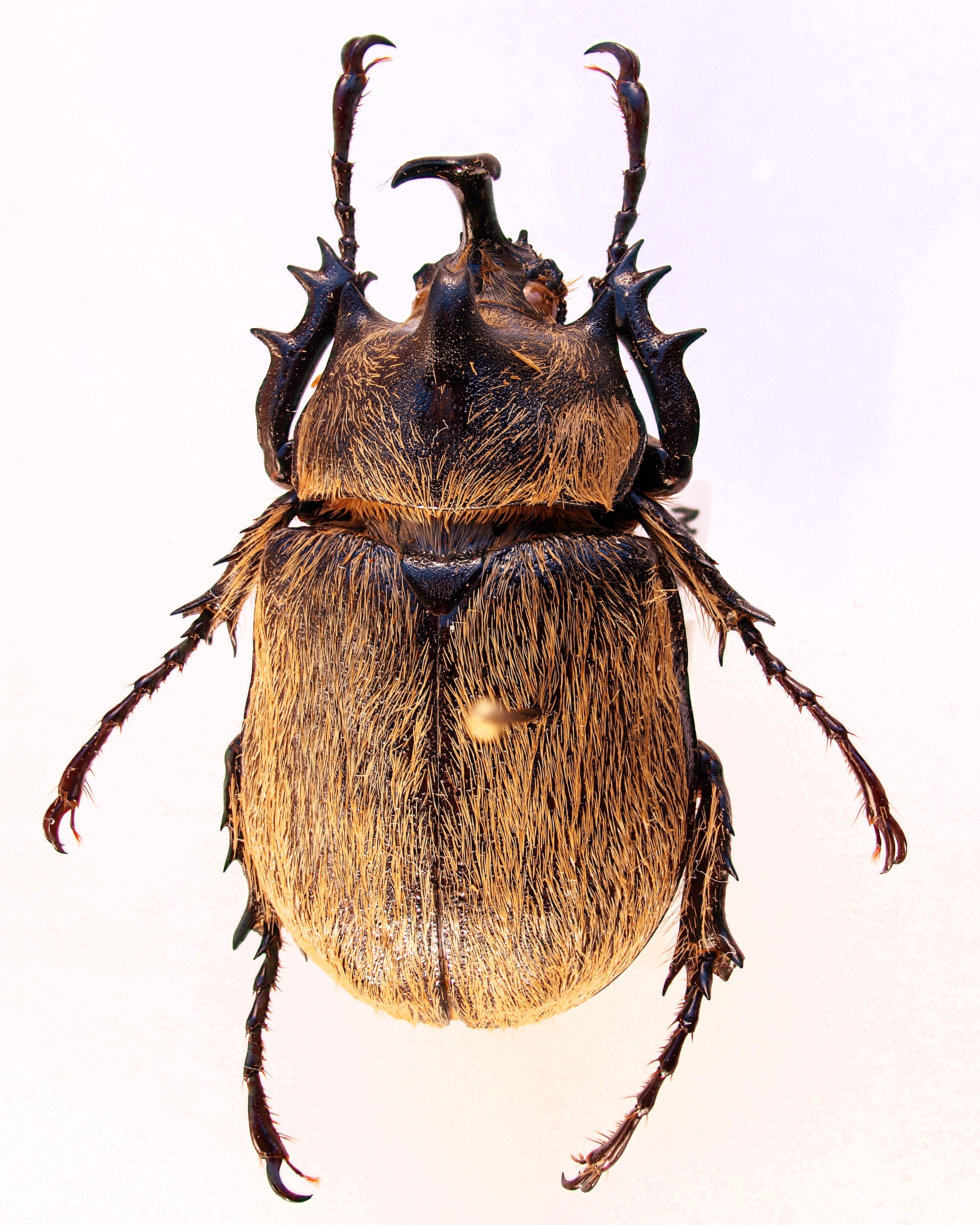 Megasoma thersites, male